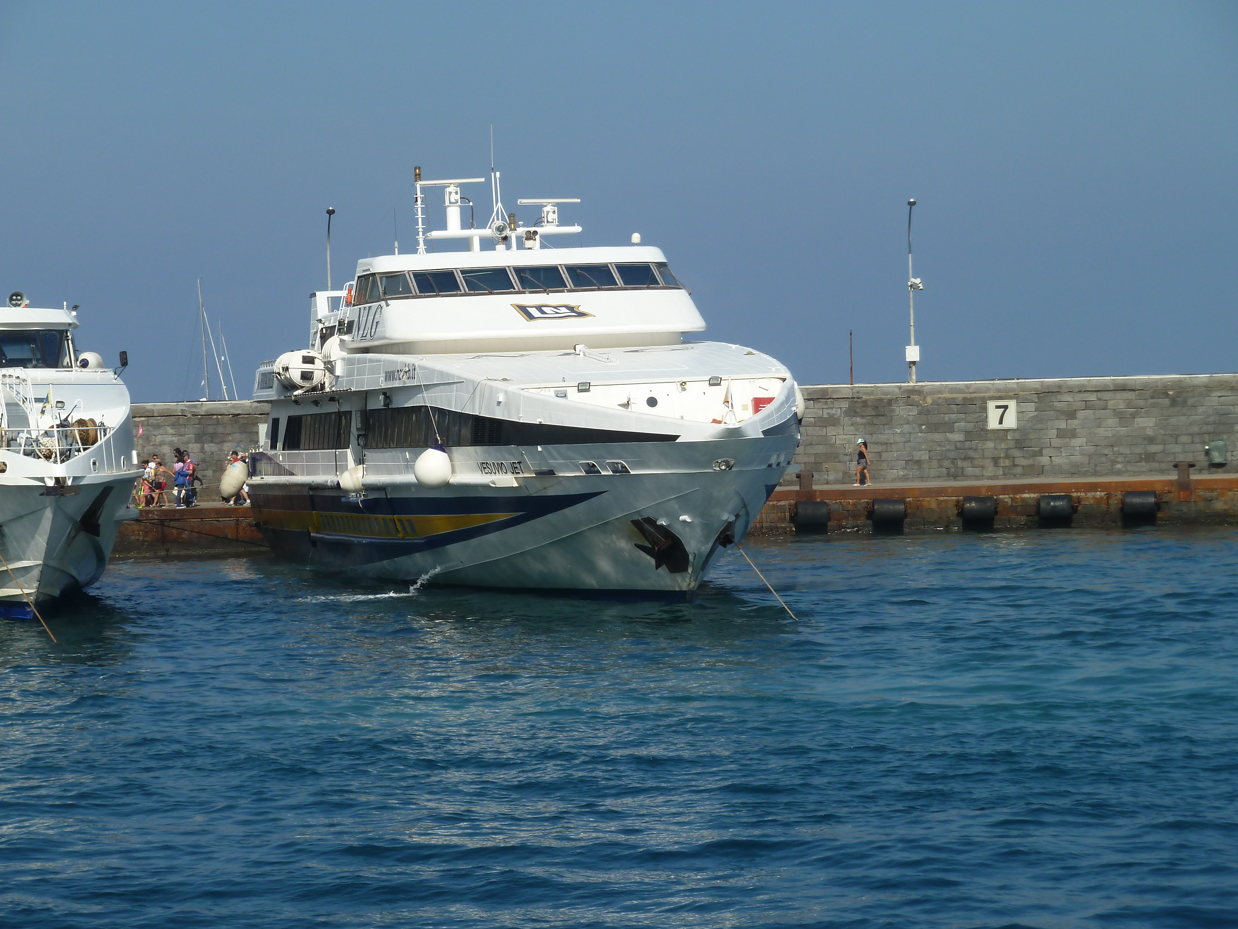 vesuvio jet